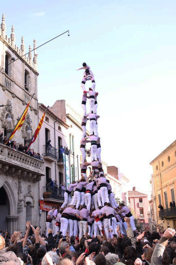 Human tower, 3 de 10 with folre and manilles, made by the Minyons of Terrassa.